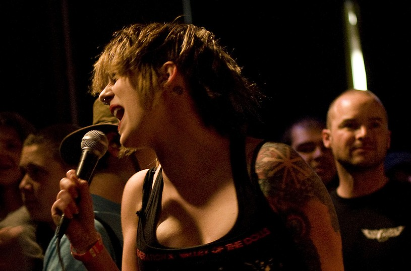 Little Miss and The No Names perform a hardcore, old school, all-ages punk show at the Linen Bldg. in downtown Boise, Idaho for the second annual Treefort Music Fest.